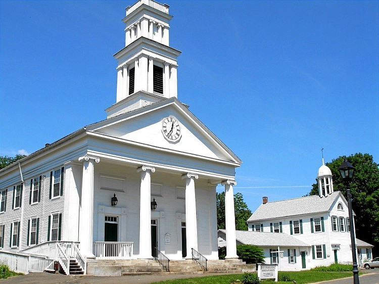 First Congregational Church, Plymouth, Connecticut; part of the Plymouth Center Historic District.